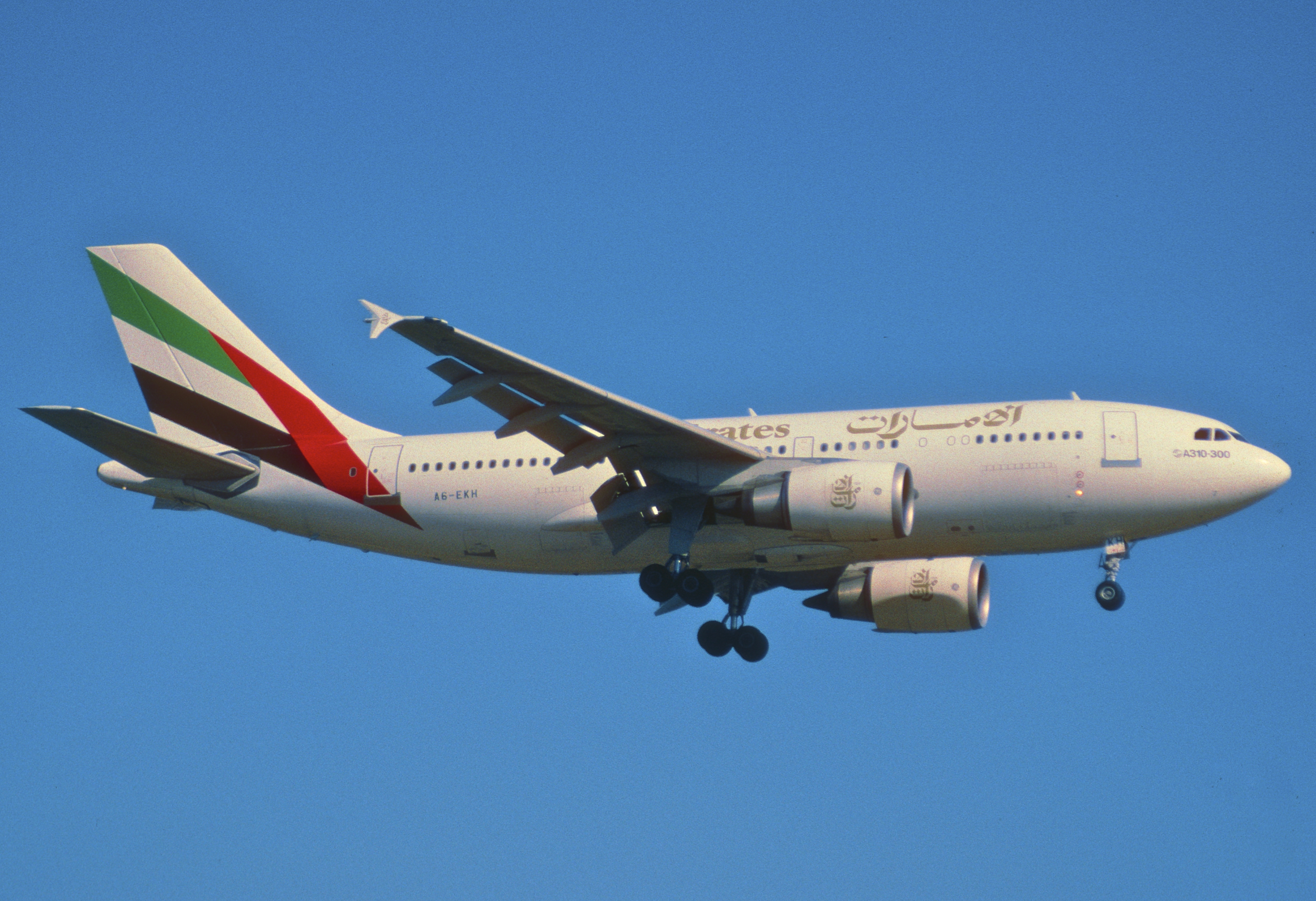 First flight: February 21, 1991...(c/n 573) 07/05/1991 TAP Air Portugal CS-TEY 08/06/1992 Jes Air LZ-JXC 01/12/1992 Regionnair S7-RGA 19/11/1994 Emirates A6-EKN 11/09/1999 Royal Jordanian Airlines JY-AGK 17/10/2006 TAP Air Portugal CS-TDI 15/10/2007 White CS-TDI 15/12/2007 Air Niugini CS-TDI 31/05/2008 White CS-TDI stored 06/2011